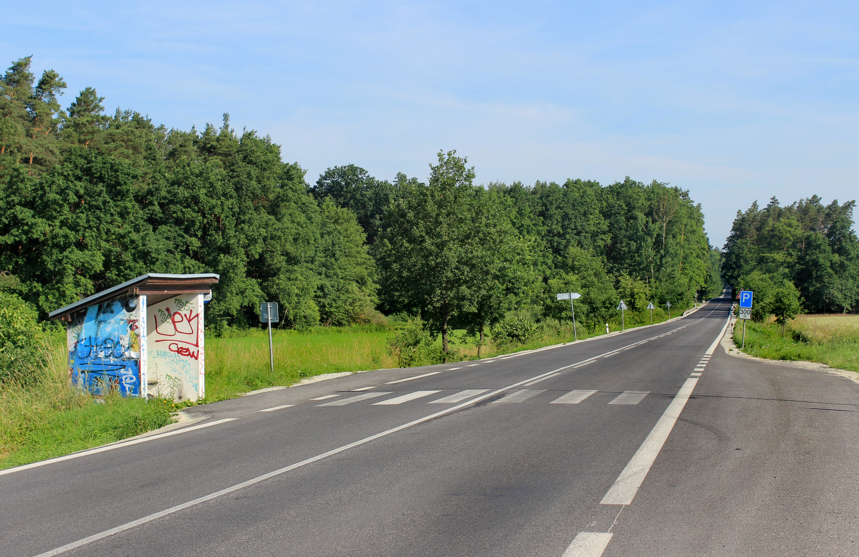 Road No 24 by Frahelž village, Czech Republic.